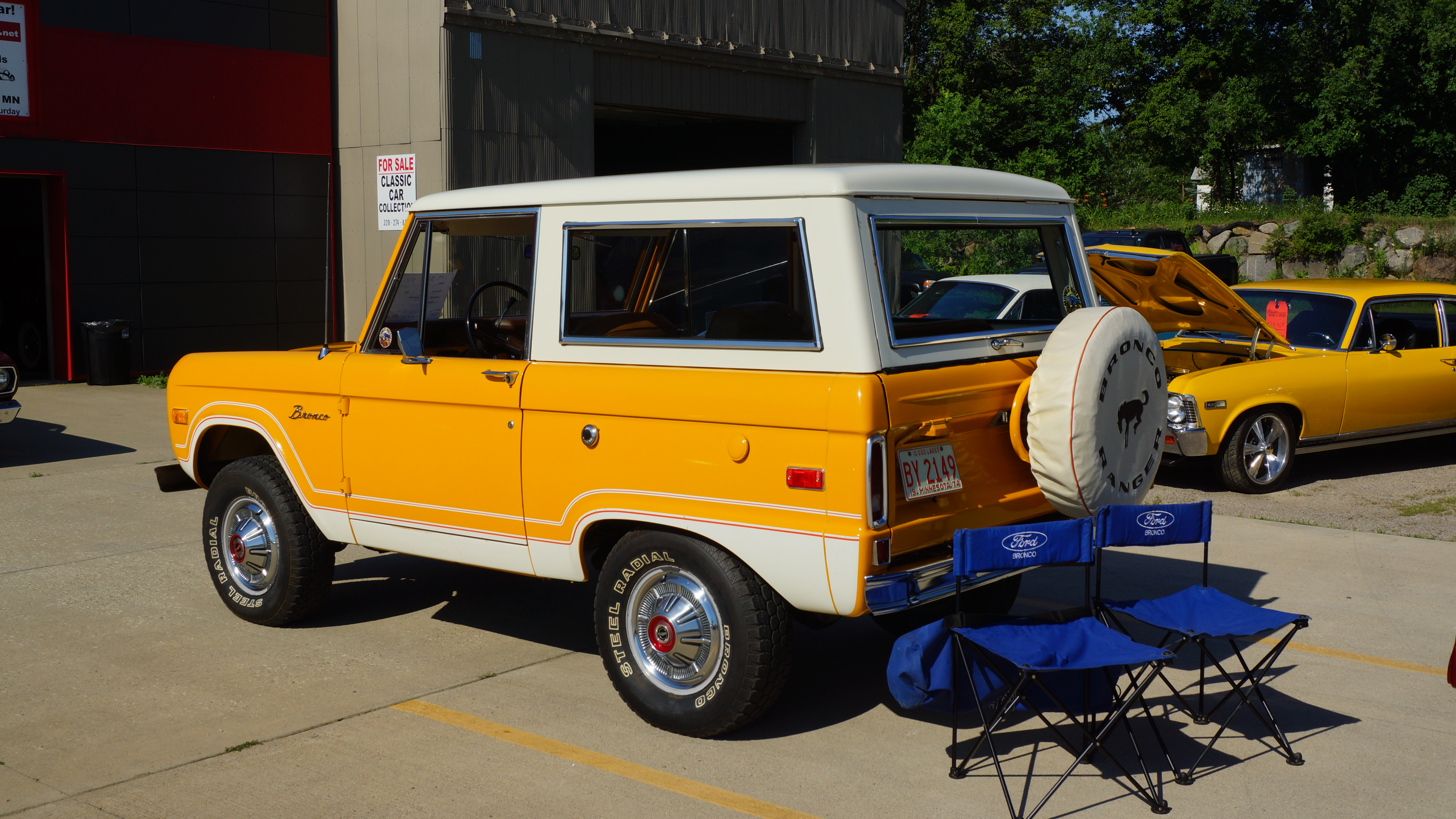 Classic Rides & Rods Classic Car Show 220 Poplar Lane Annandale, Minnesota July 8, 2018 *Click here for more car pictures by make Click here for Car Event pictures by year. Or here for my Car Crazy Tumblr site. Or on Twitter @DVS1mn.